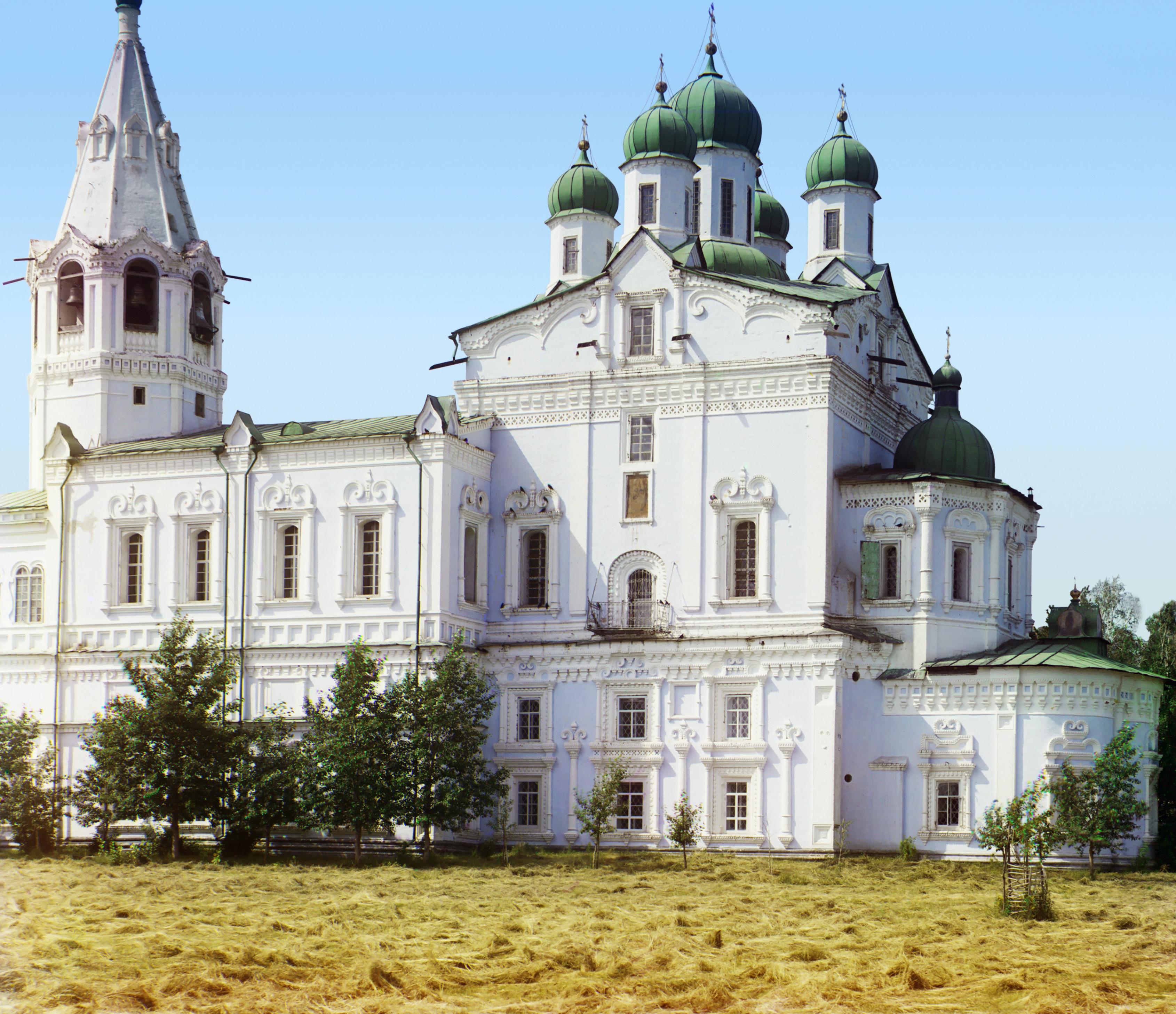 Original Description: Assumption Cathedral in the Dalmatov Monastery.